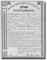 Source: Perpetual Scholarships: Northwestern University, undated. Scholarships were not granted after 1867, thus first published before 1923.